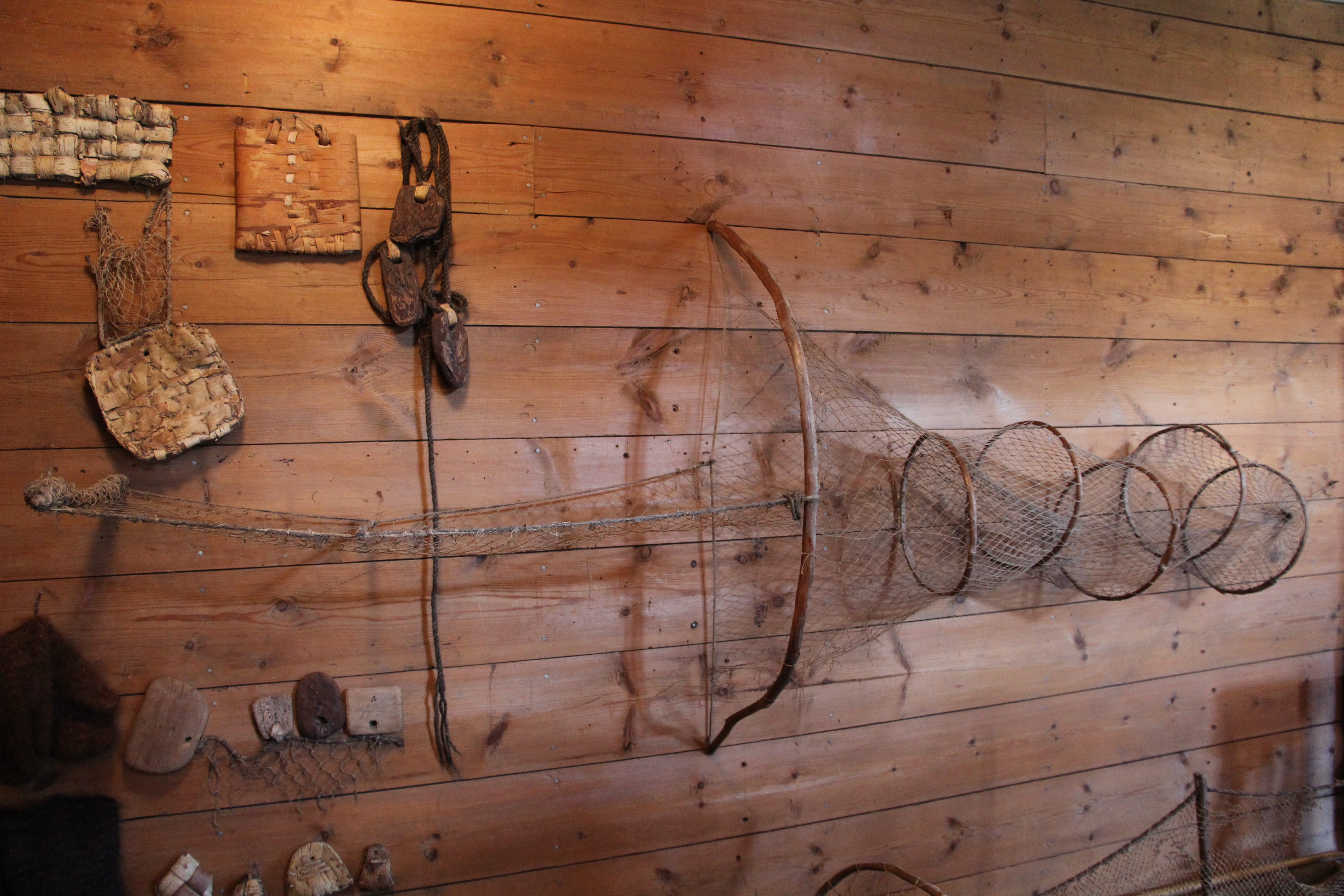 Old fishing equipment including a fyke in Suur-Savo museum.